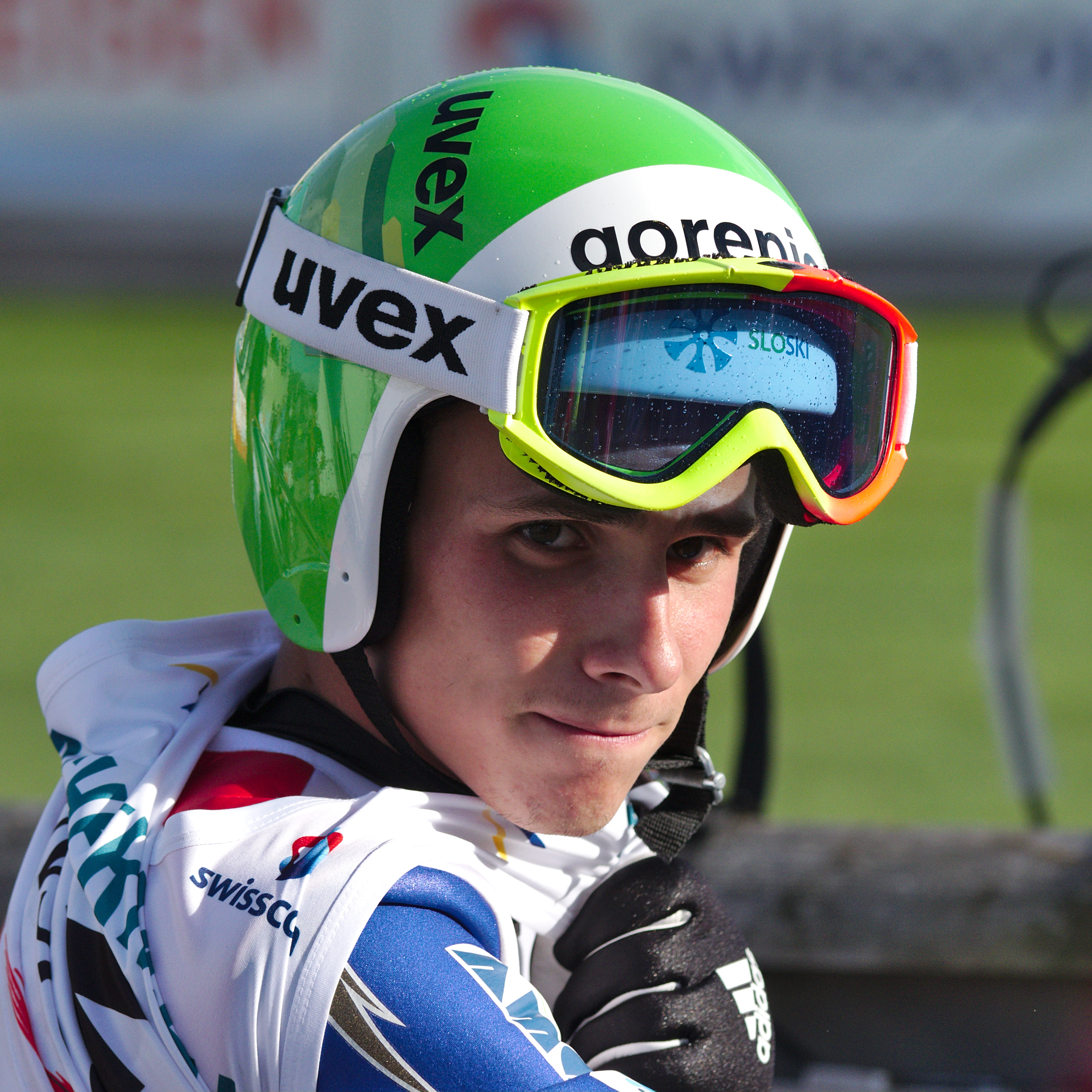 FIS Sommer Grand Prix 2014 - 20140809 - Rok Justin